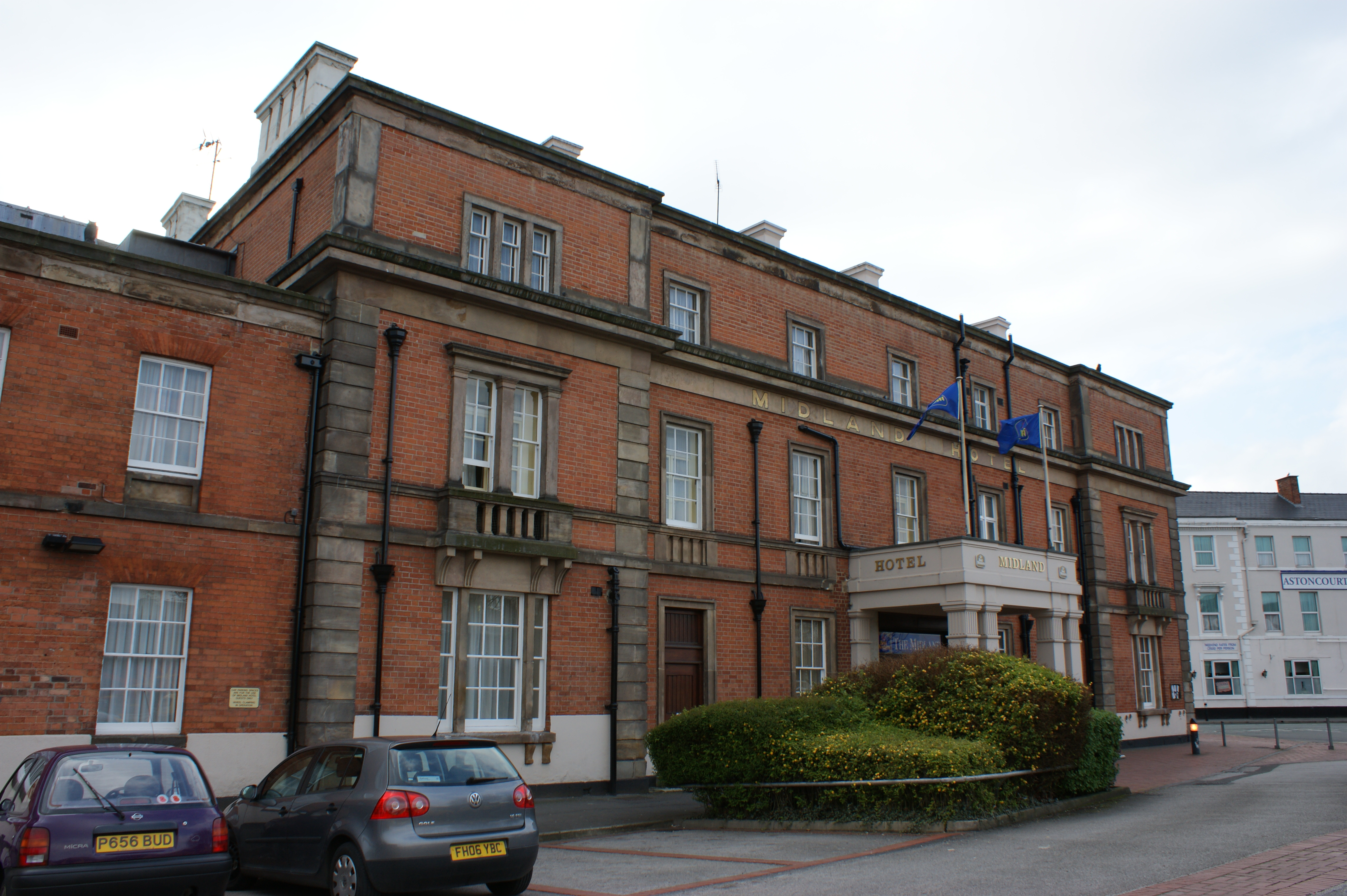 Midland Hotel, Derby, 04/08. Originally one of the Midland Railway's most prestigious hotels - and still good!